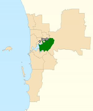 Incorporates or developed using Administrative Boundaries ©PSMA Australia Limited licensed by the Commonwealth of Australia under Creative Commons Attribution 4.0 International licence (CC BY 4.0). Derived from State and Territory Boundaries from the Australian Bureau of Statistics under Creative Commons Attribution 2.5 Australia license (CC BY 2.5 AU)